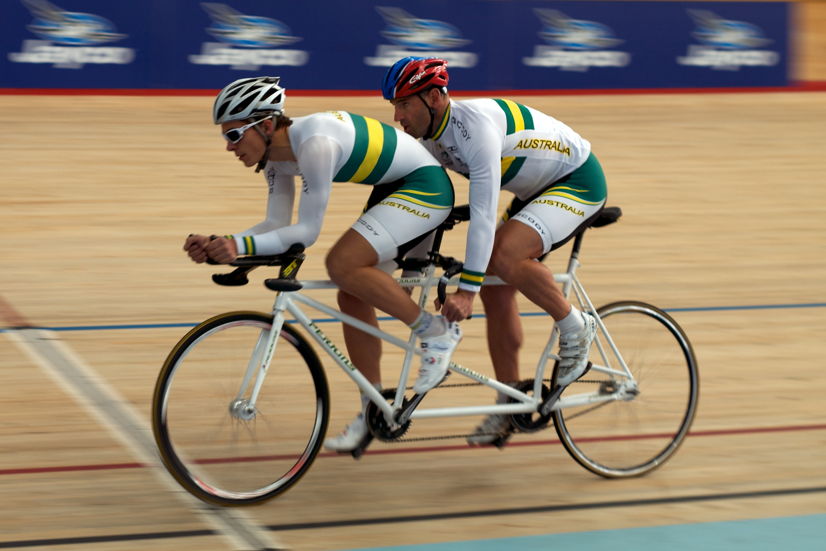 Scott McPhee and Kieran Modra riding at the announcement of the 2012 Australian Paralympic cycling team.